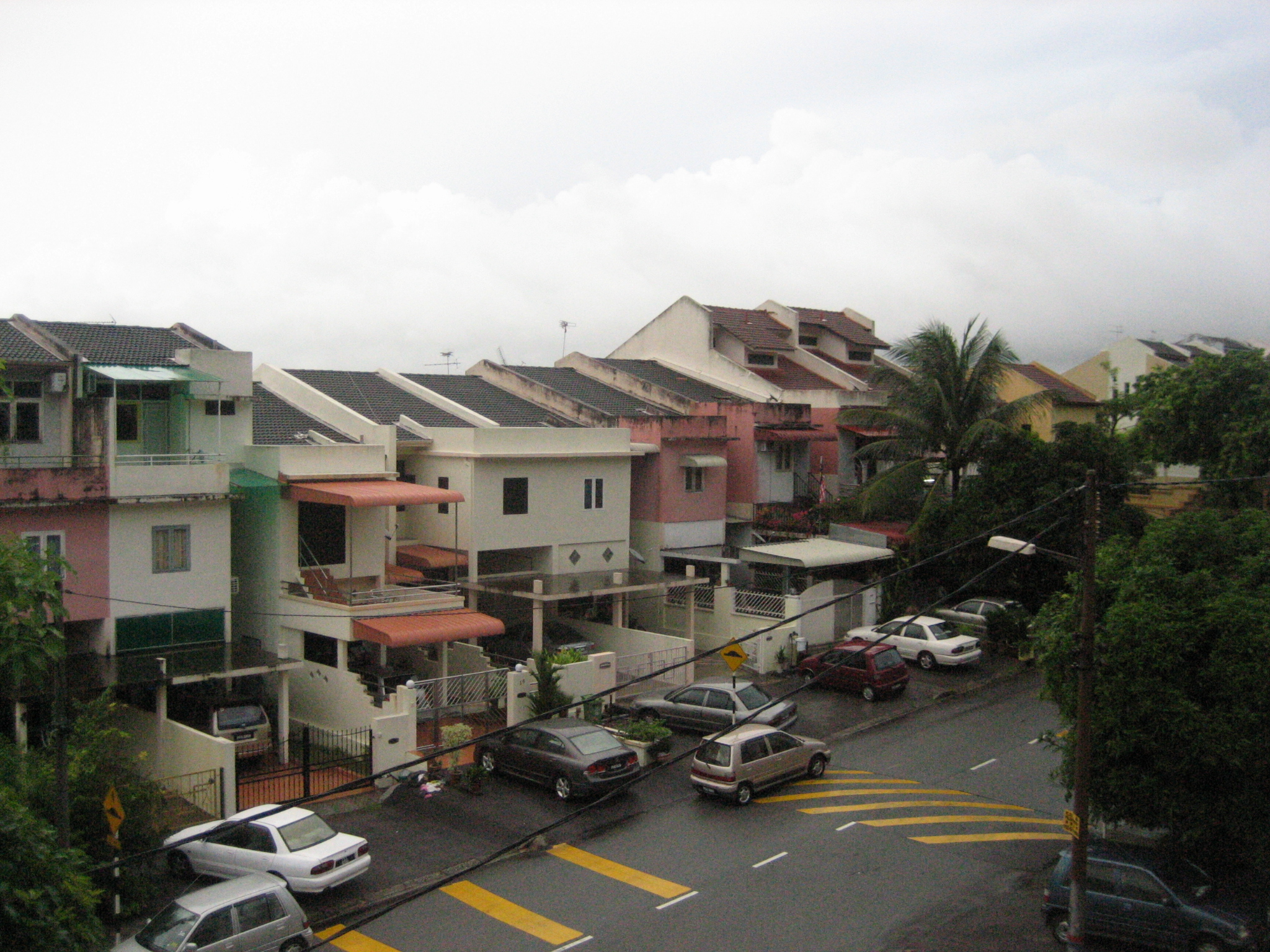 Houses at Cangkat Sungai Ara 2